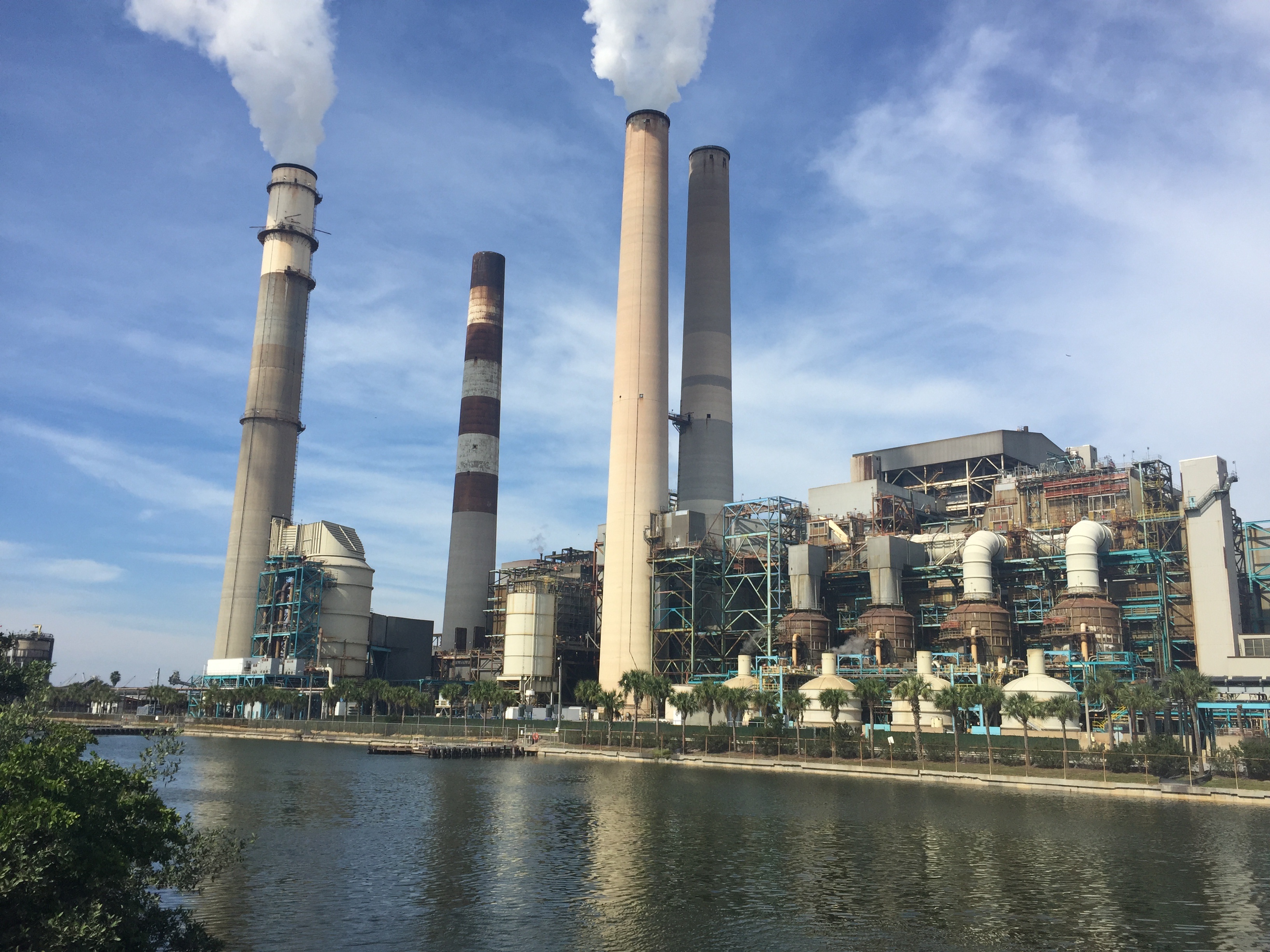 View of Big Bend Power Plant from Apollo Beach, Florida